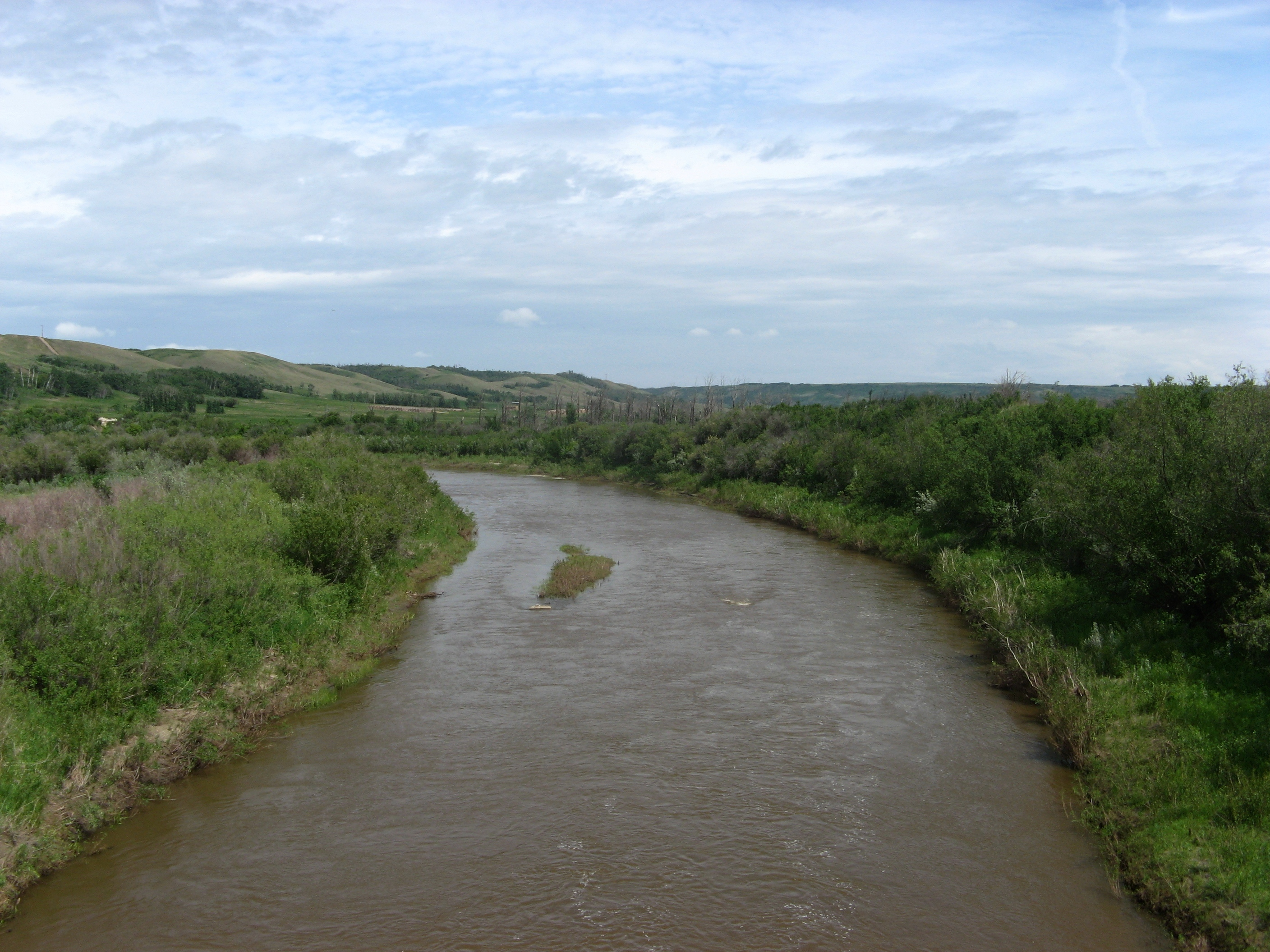 Erik Lizee - Author